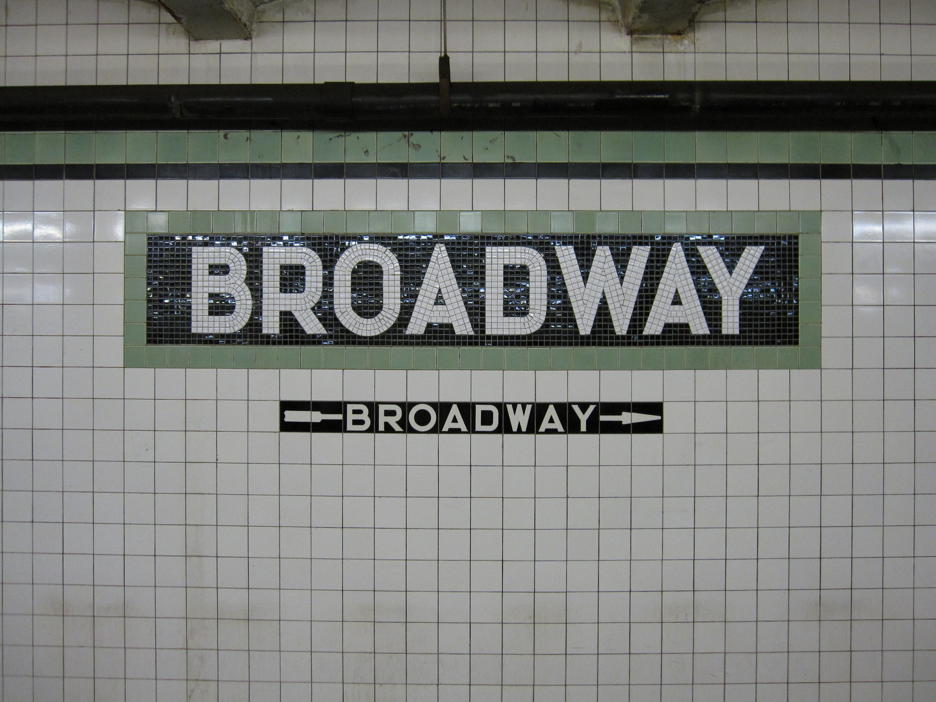 Broadway (IND Crosstown Line)